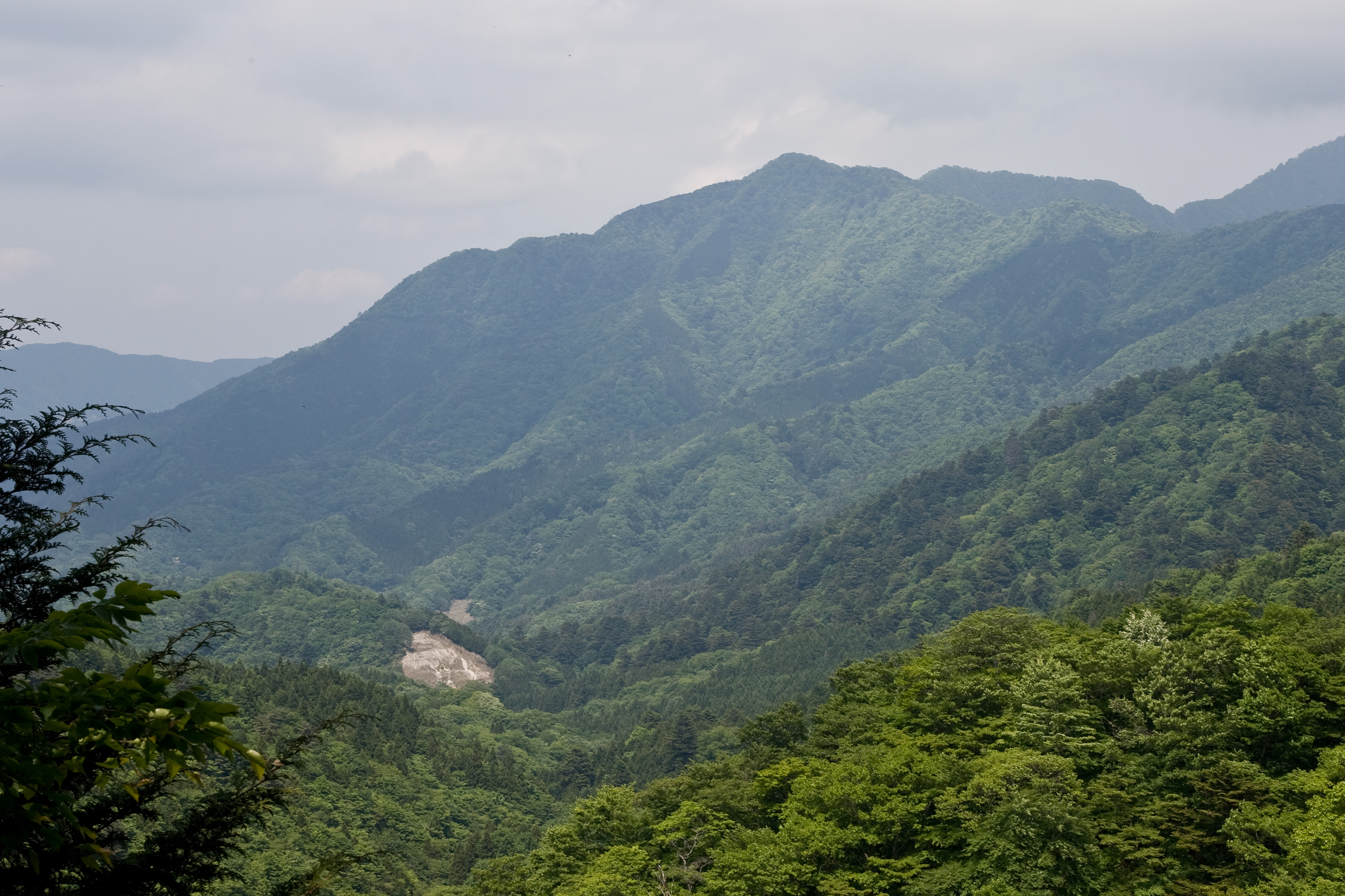 Mt.Kanyudo as seen from SSW. Taken from the north ridge of Mt.Daikaigi in Mts.Tanzawa, Yamanashi Pref, Japan.